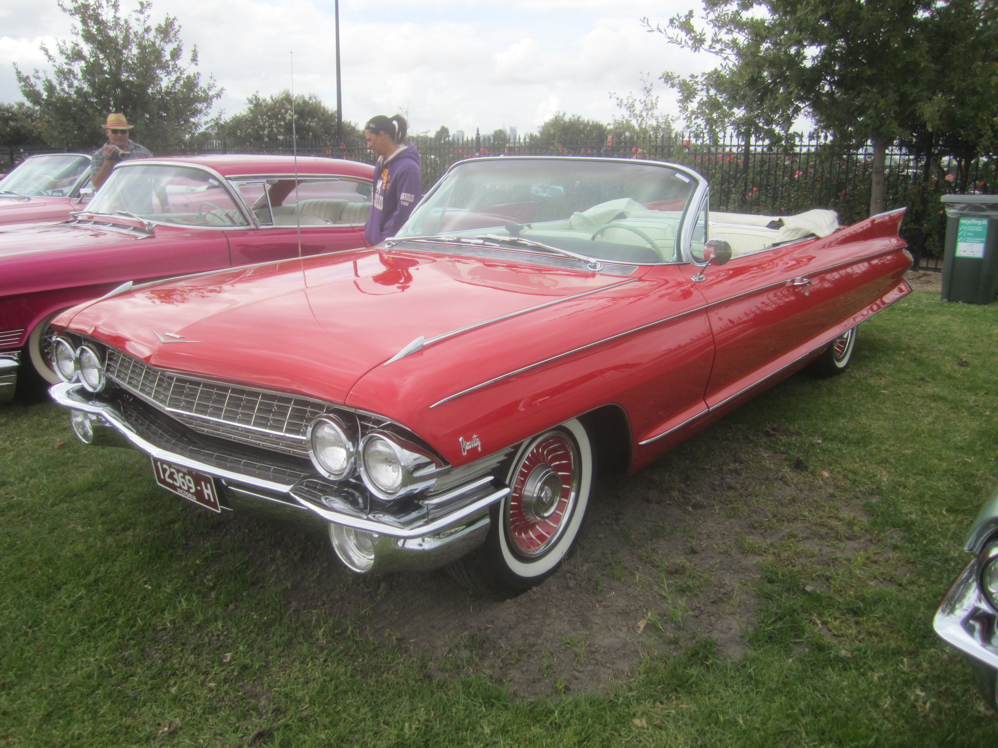 The 1961-64 Cadillac got a restyle, a bit more subtle, the grille slanted back towards the bumper and towards the hood pointed in the centre. Available in 4 and 6 window 4 door hardtop, 2 door hardtop and convertible. Base model was the 6200, the de Ville was the 6300, Eldorado the 6400 (now just as convertible), the 60 Special 4 door Hardtop was still available and also the 6700 long wheelbase limousine. Engines; 390 or 429 cu in V8